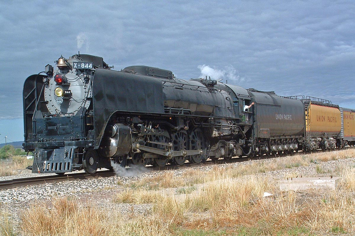 Union Pacific X844 at Marathon Tx